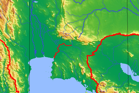 Highlight of Bang Pakong River in red.